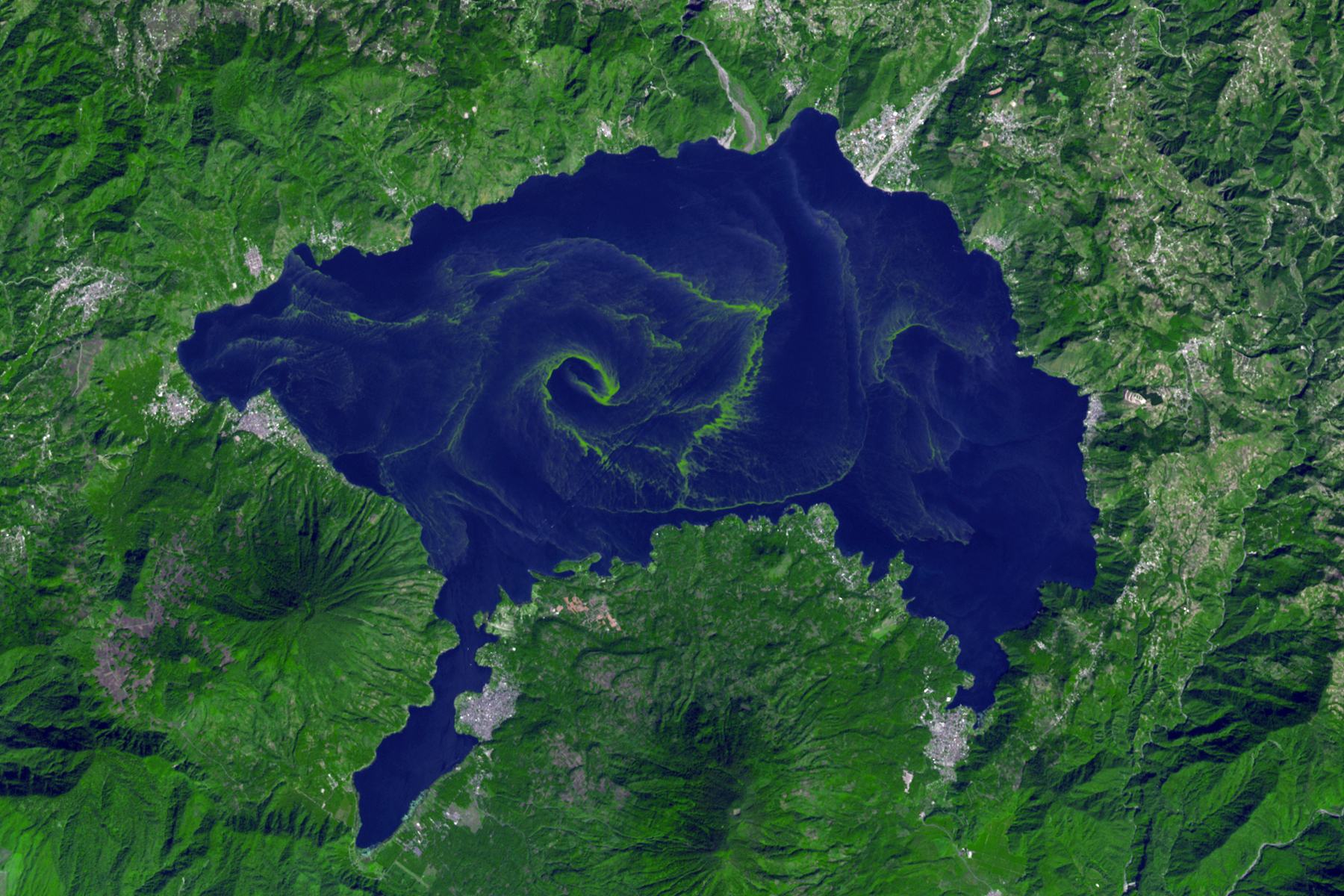 A large bloom of cyanobacteria, more commonly known as blue-green algae, spread across the lake in green filaments and strands that are clearly visible in this simulated-natural-colour image. According to local news reports, the nutrients feeding the bloom in Lake Atitlán come from sewage, agricultural run off, and increased run off as a result of deforestation around the lake basin. The image reveals clearly why run-off would end up in the lake. Mountains and volcanoes encircle Lake Atitlán, ensuring that all rain that falls in the basin flows into the bowl-like lake. Silver-gray settlements, another source of pollution, ring the lake. Deforestation is a little bit more difficult to see. The forest is a darker shade of green than agricultural fields. The contrast between forested land and agriculture is most evident on the slopes of the San Pedro Volcano on the south-west shore of the lake. Large pale green squares cut into the dark green crown over the peak of the volcano.